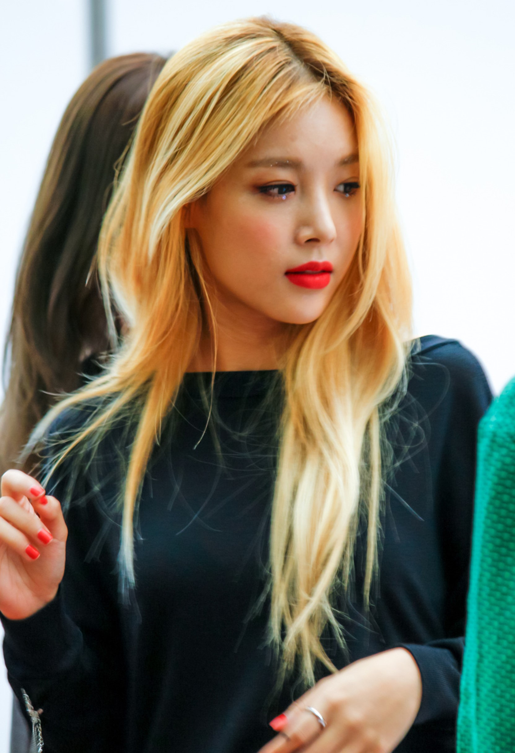 Kim Yu-bin at a fanmeet on July 15, 2016.